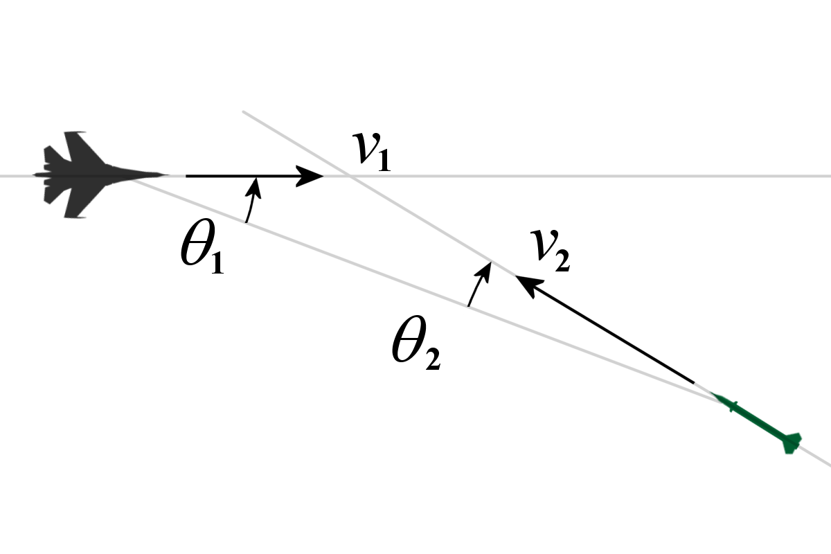 Radial speed between two objects with different velocity vectors.